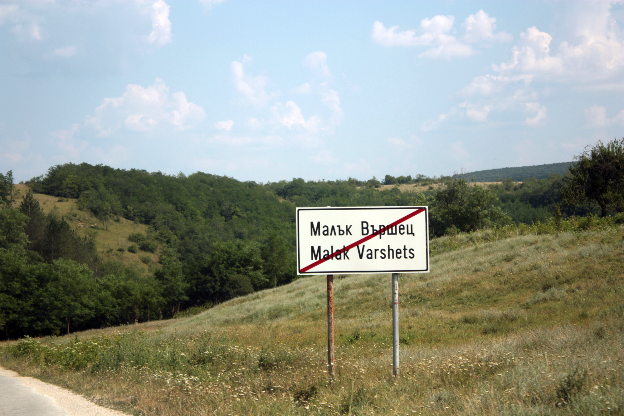 Malak Varshets surroundings, Bulgaria